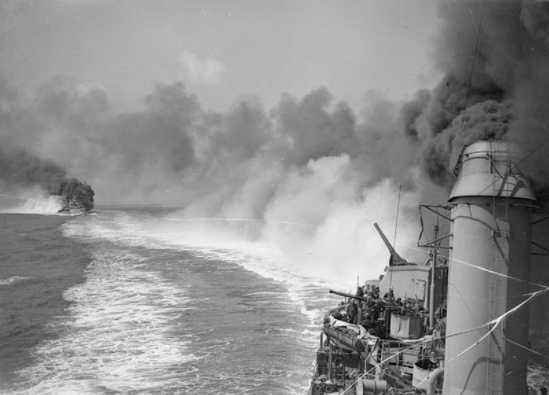 Photograph taken from the US destroyer USS MACKENZIE during the successful bombardment of enemy batteries, dumps, and roads to the west of Gaeta, Italy carried out by the cruiser HMS DIDO in support of the army.